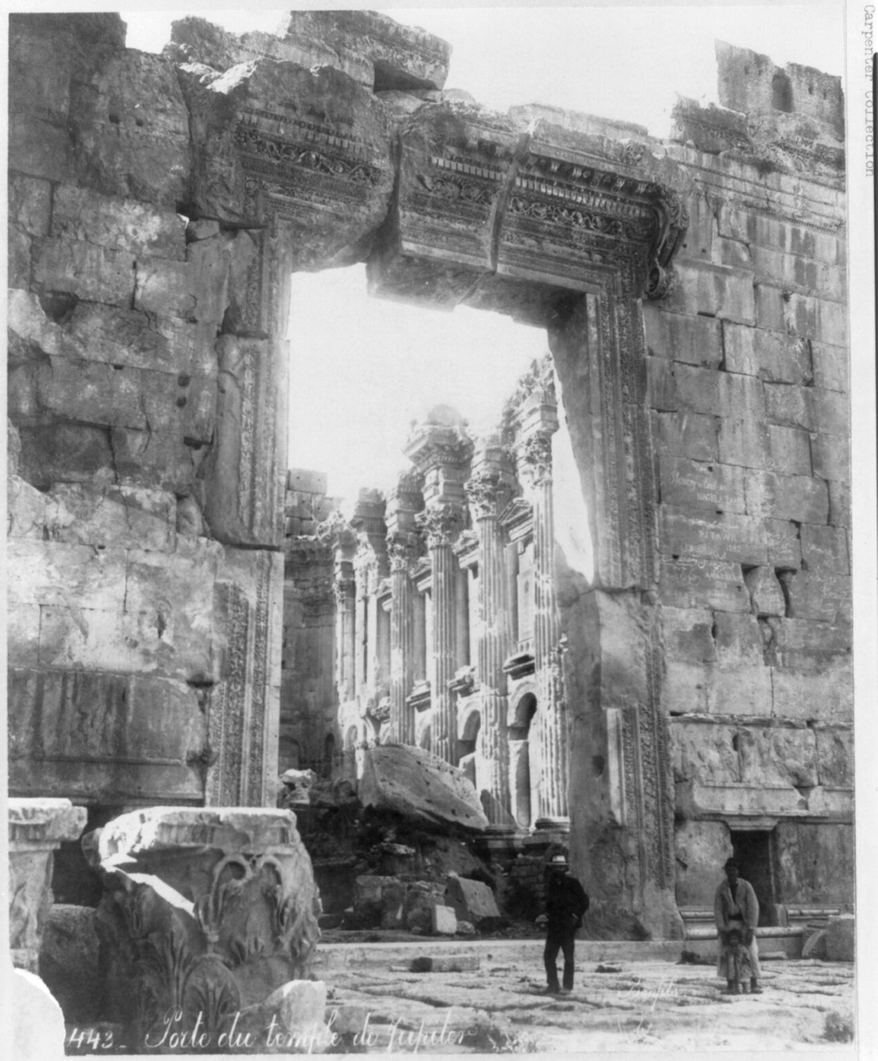 Ruins of temple, Baalbek, Lebanon.